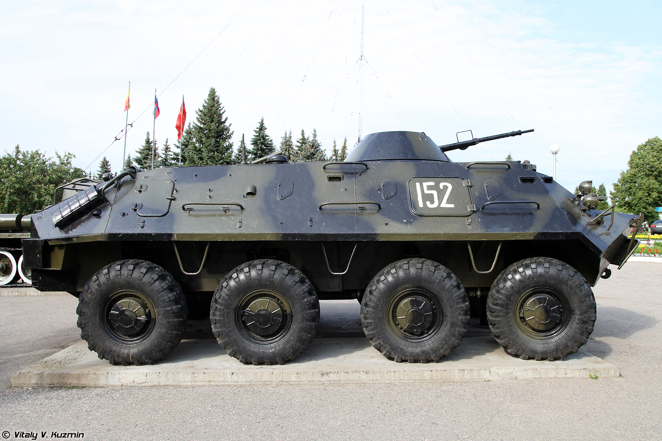 BTR-60PB